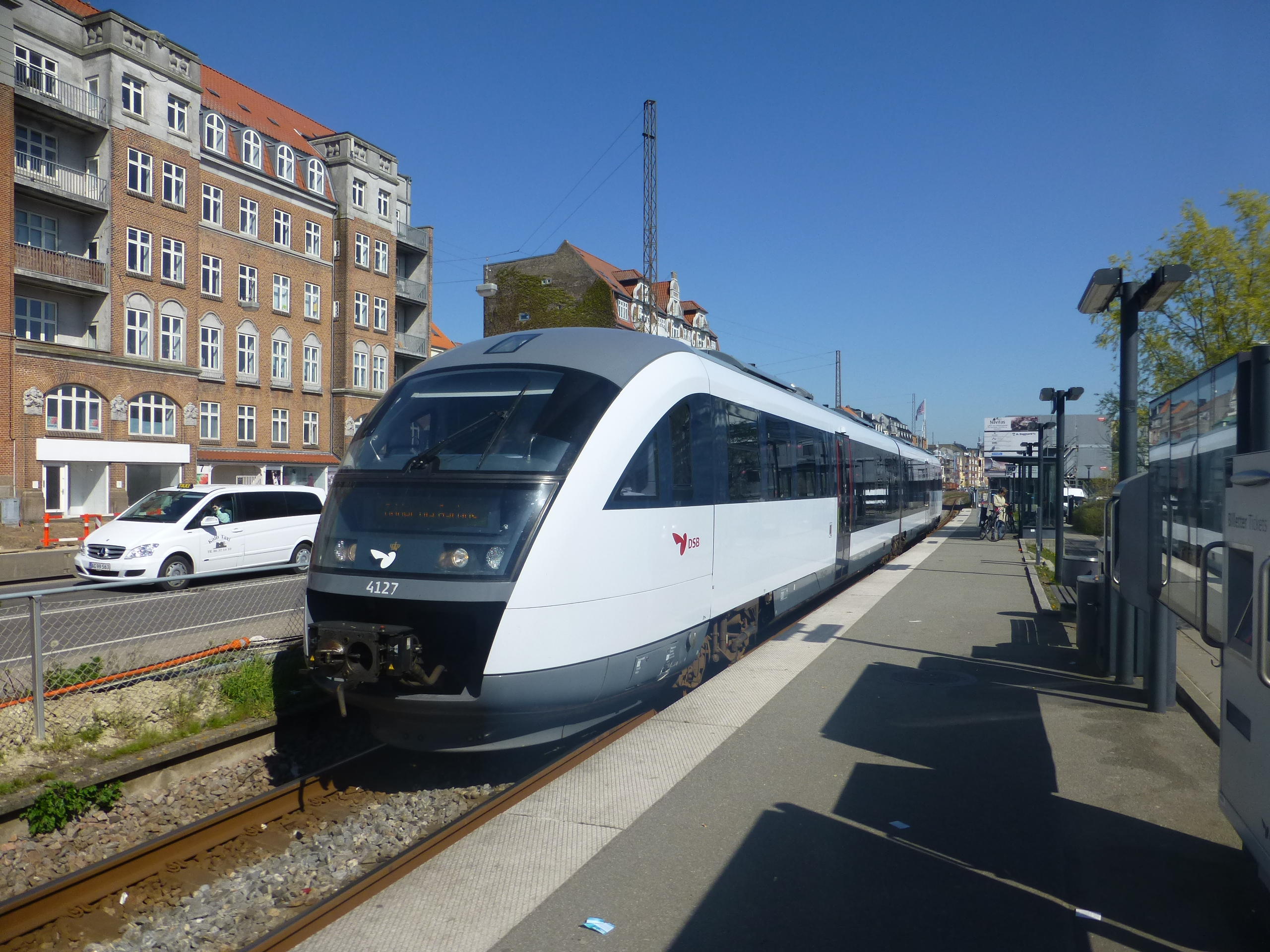 Skolebakken Station on Grenaabanen in Aarhus in Denmark.